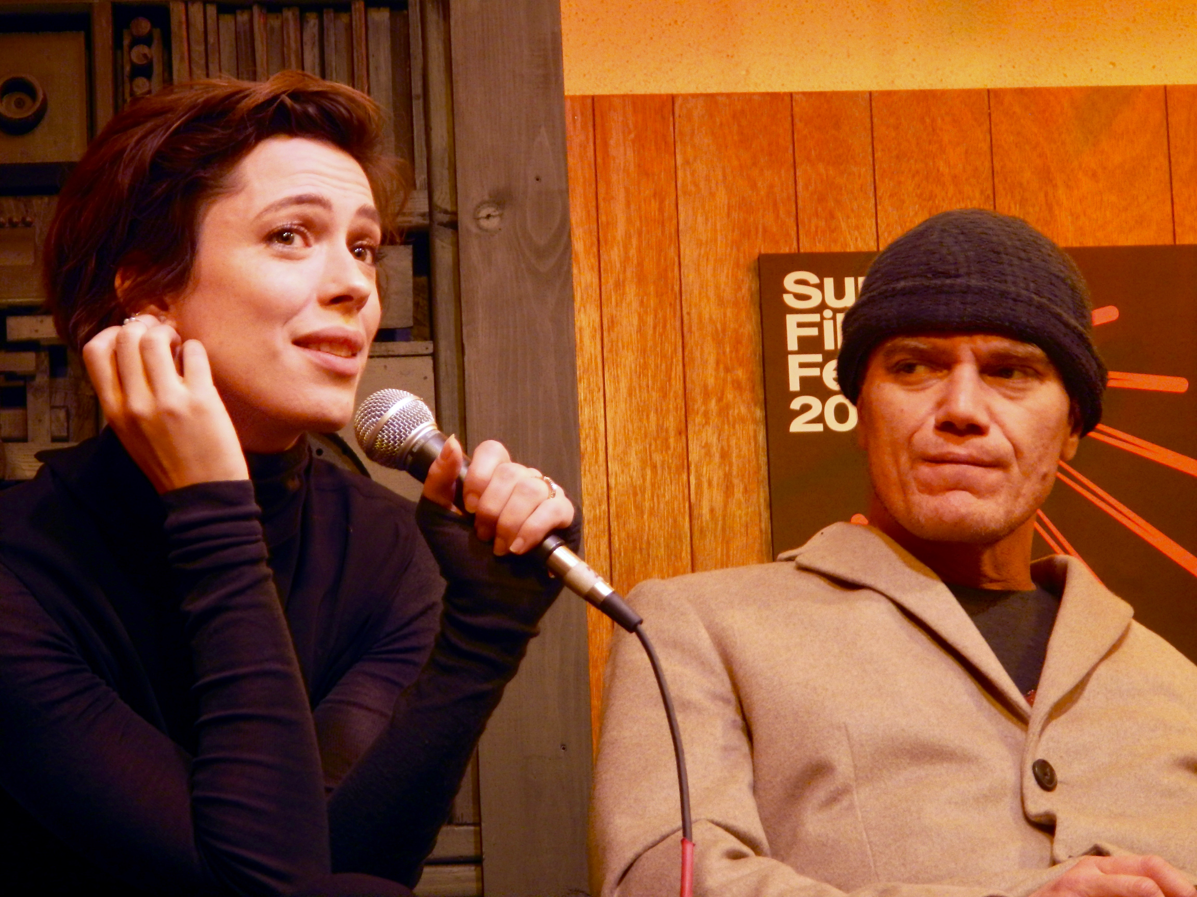 Cinema Cafe, 2016 Sundance Film Festival, Park City UT